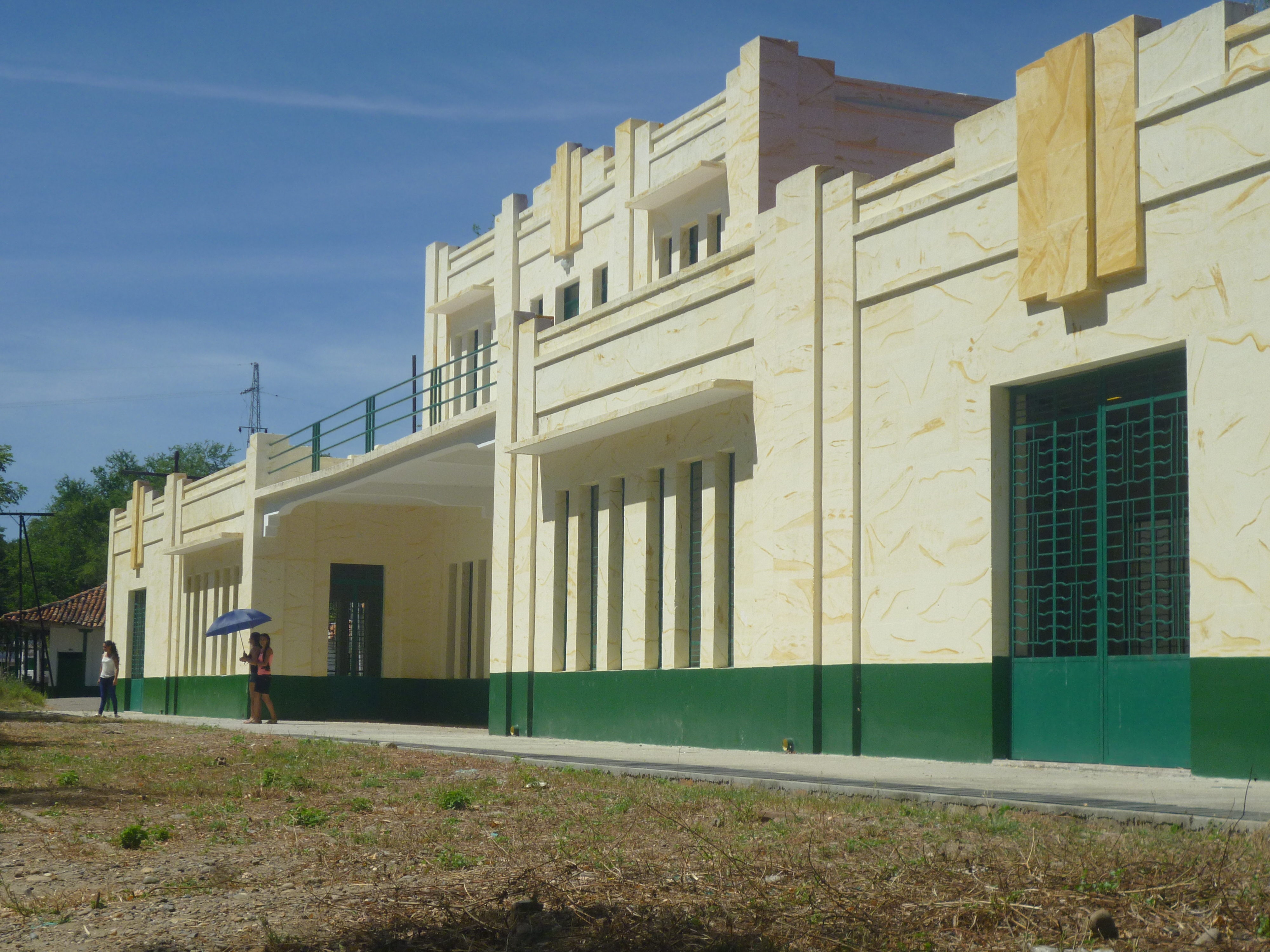 Estación del Ferrocarril Ambalema